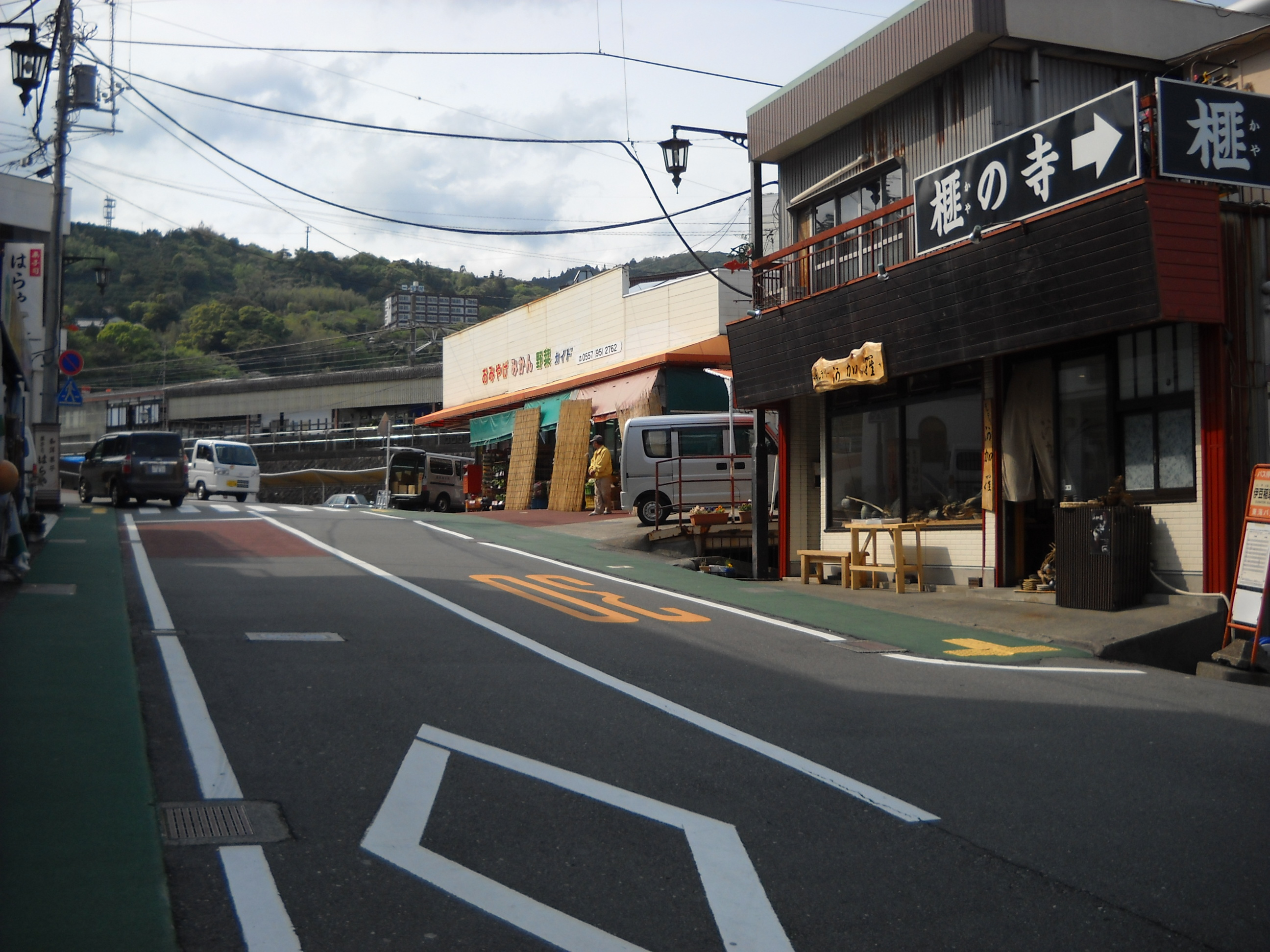 Shizuoka prefectural road route 348, Higashi-izu town, Shizuoka pref., Japan